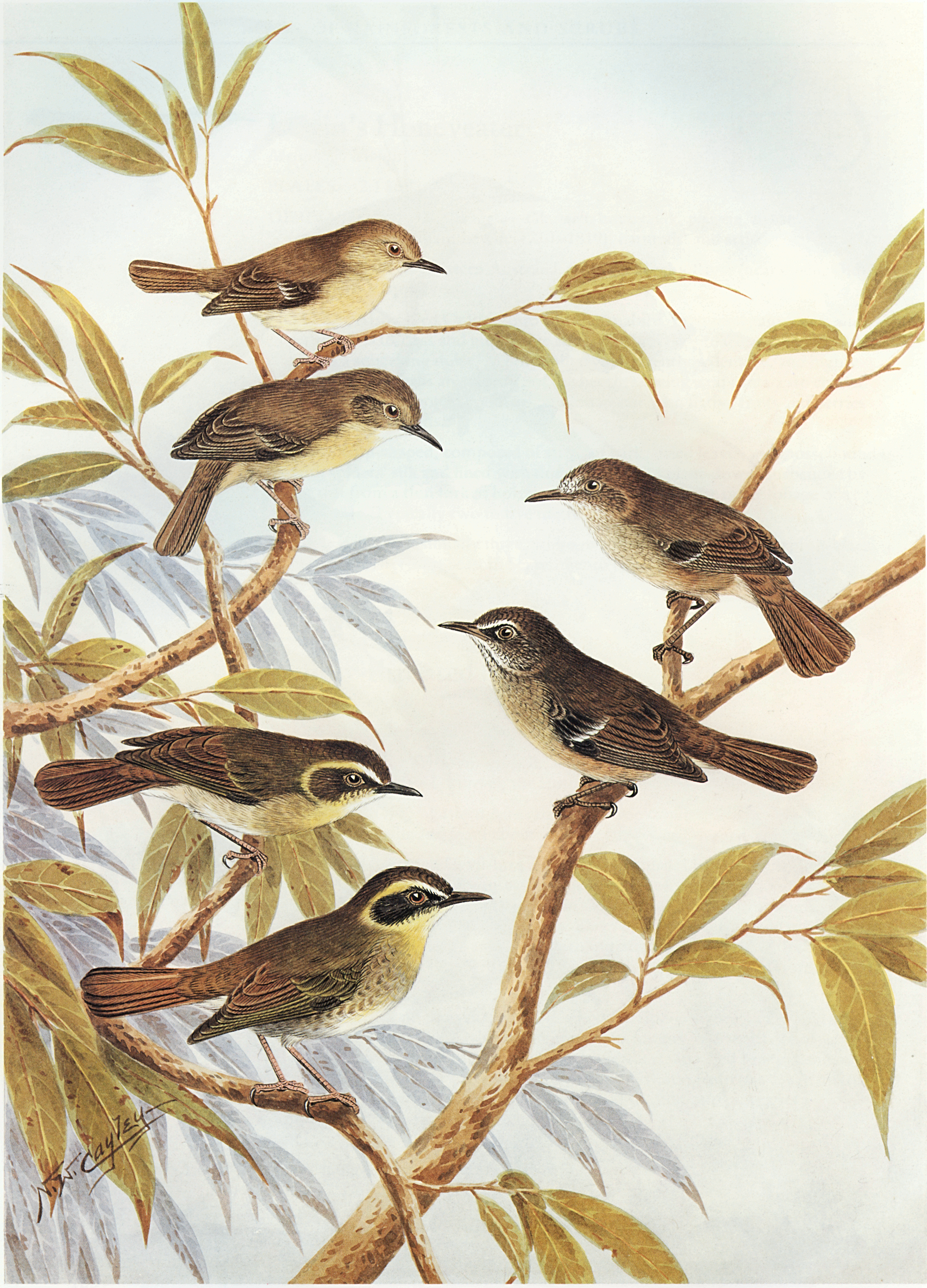 Top left: Large-billed Scrubwrens (Sericornis magnirostris). Bottom left: Yellow-throated Scrubwrens (Sericornis citreogularis). Right: White-browed Scrubwrens (Sericornis frontalis humilis) of the Tasmanian race.